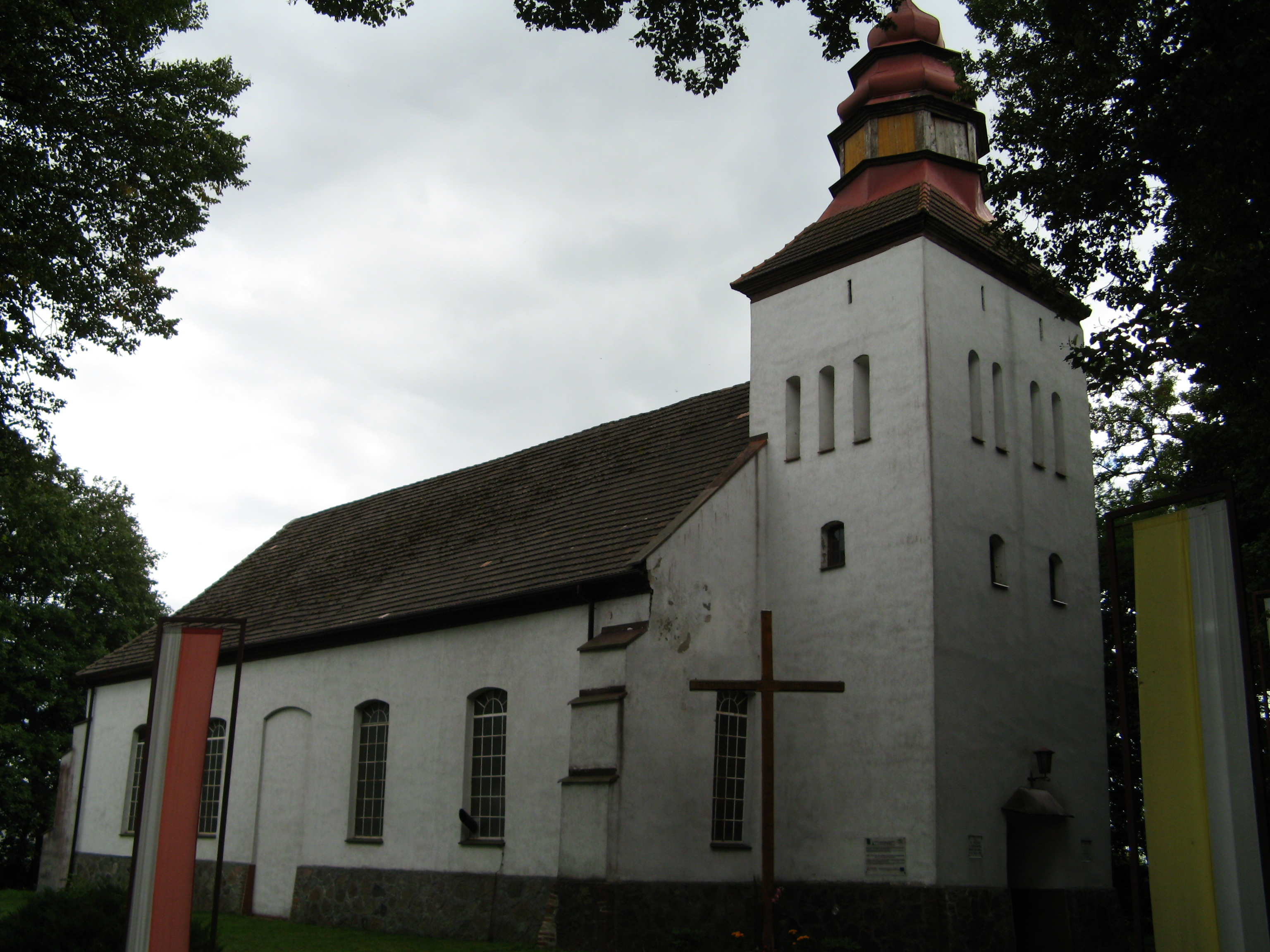 Saint Mary church in Grzmiąca (before 1945 german Gramenz)